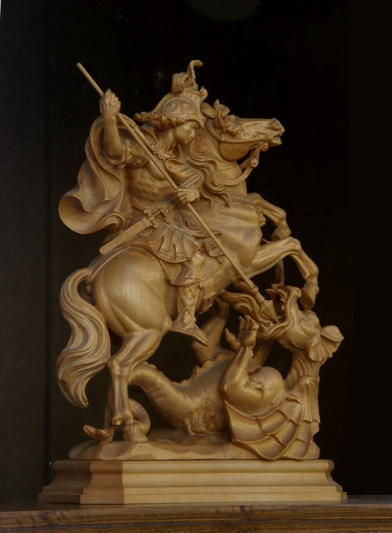 St. George, The Corinthians patron saint